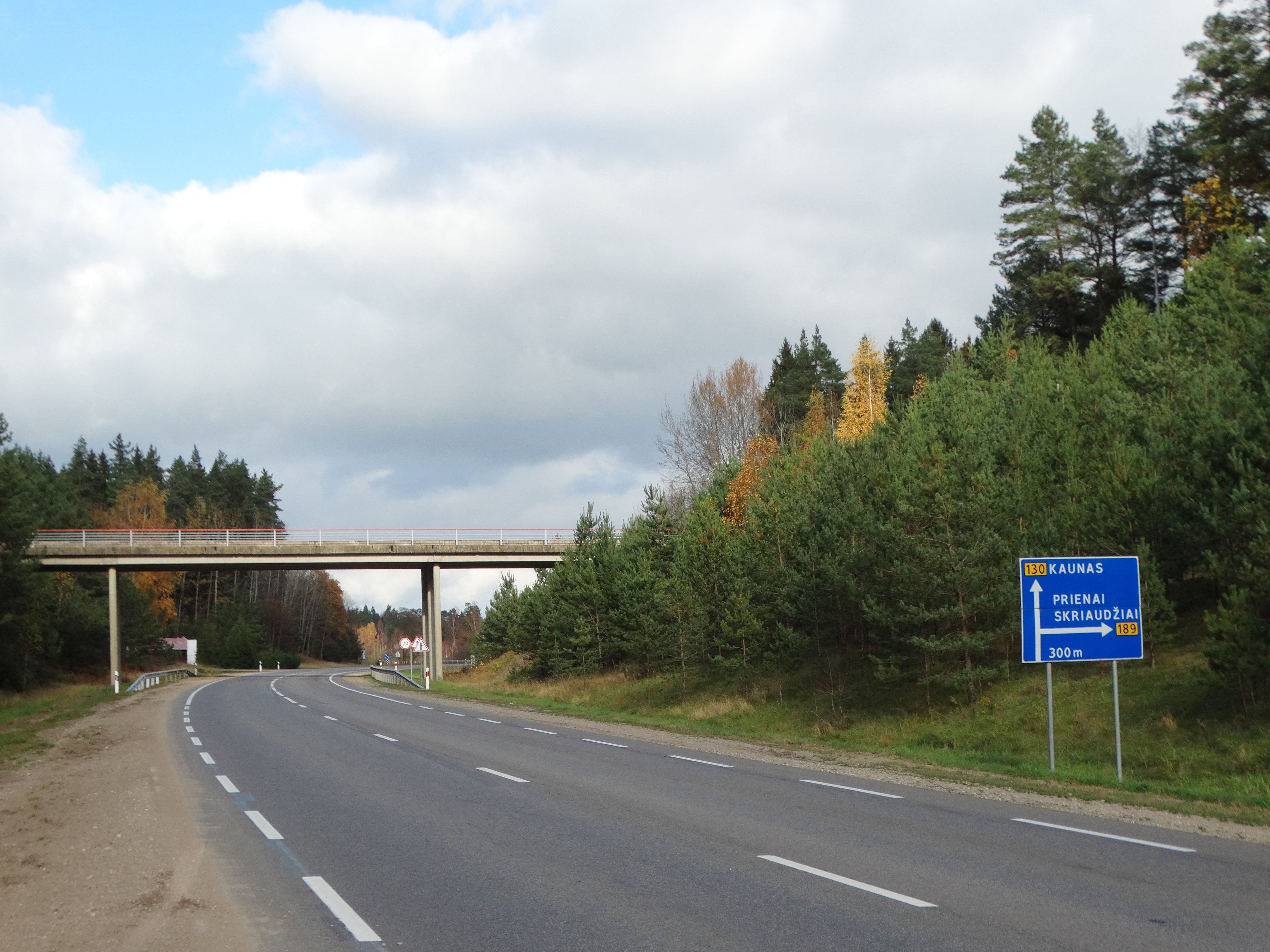 Regional road 130, near Prienai, Lithuania